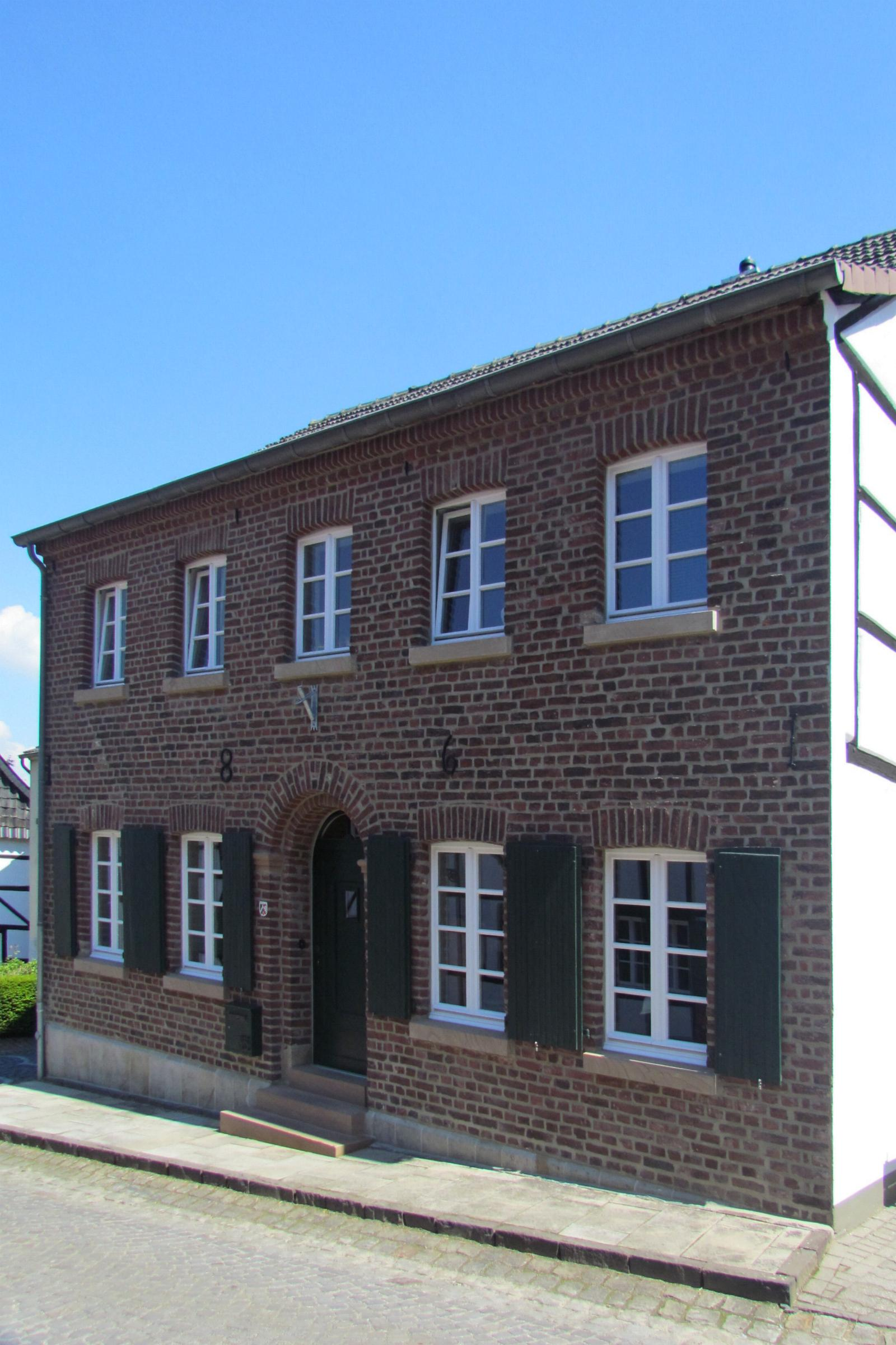 This is a photograph of an architectural monument.It is on the list of cultural monuments of Korschenbroich